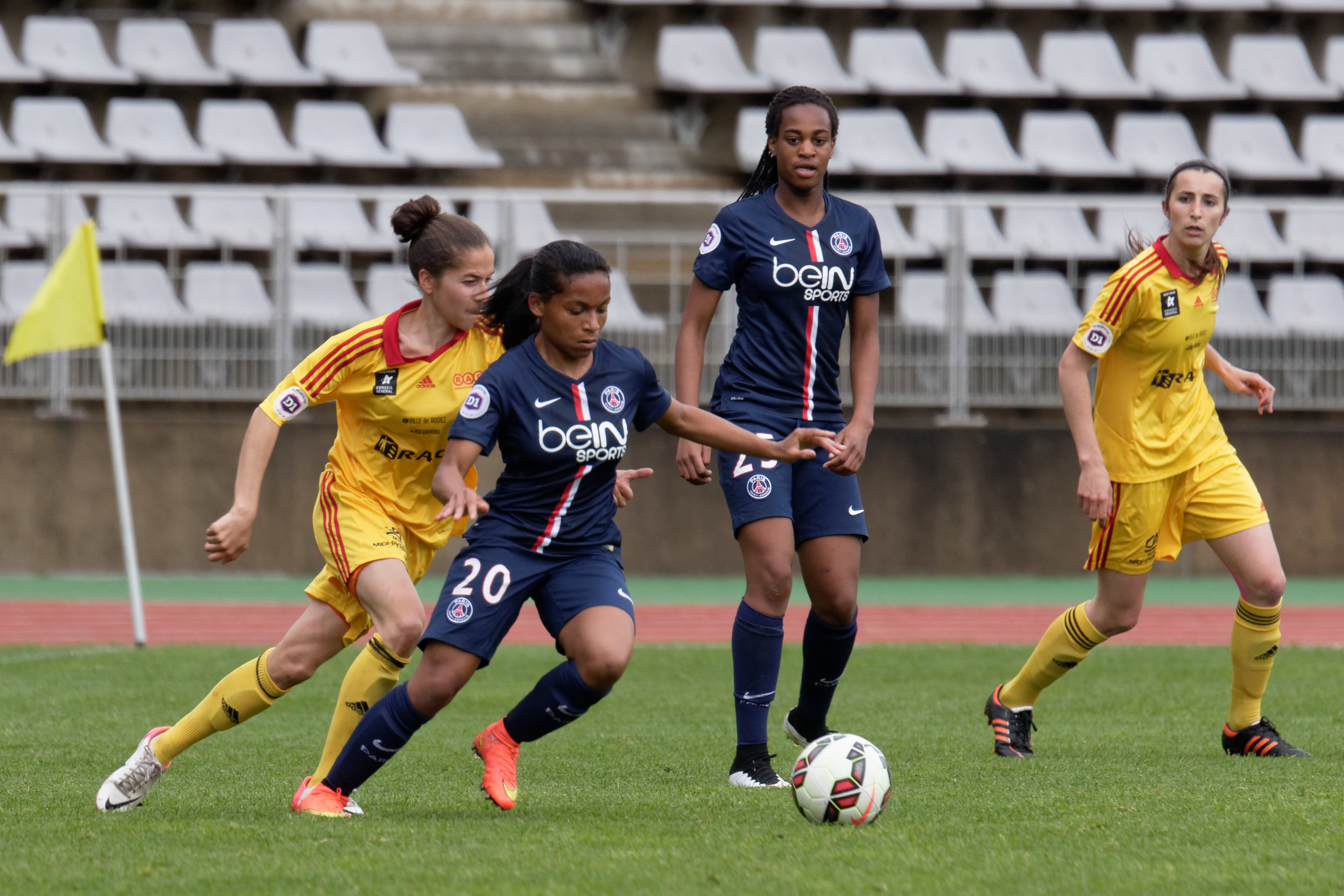 PSG vs Rodez, 3rd May 2015.